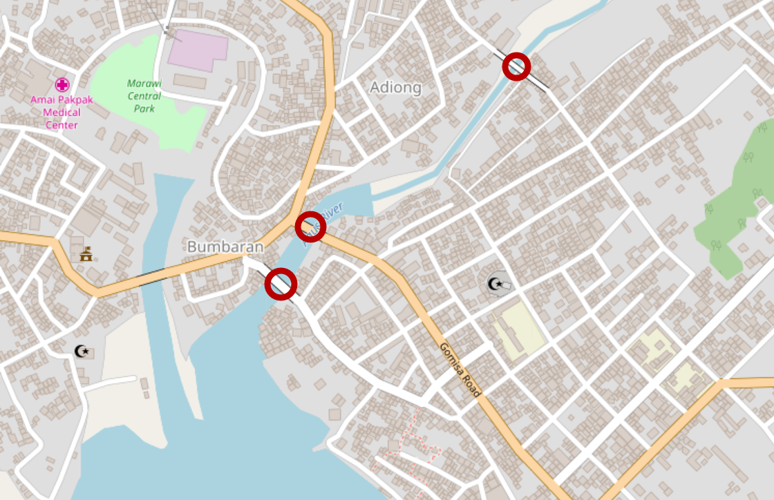 The three bridges considered as strategic by the Philippine government during the Battle of Marawi; from top to bottom: Mapandi Bridge Bayabao (Banggolo) Bridge Raya Madaya (Masiu) Bridge